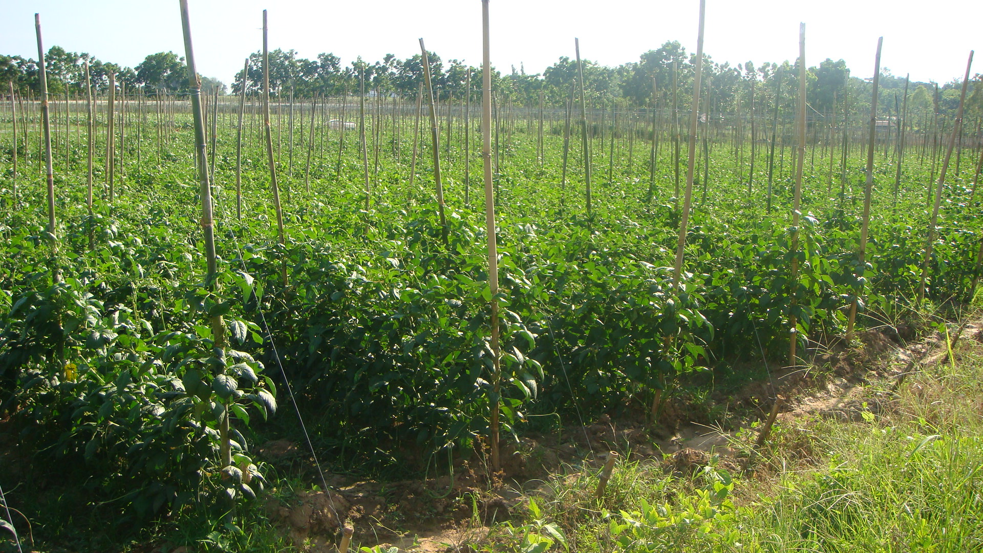 Yardlong beans (Vigna unguiculata subsp. sesquipedalis) plantation (Upig, San Ildefonso, Bulacan)